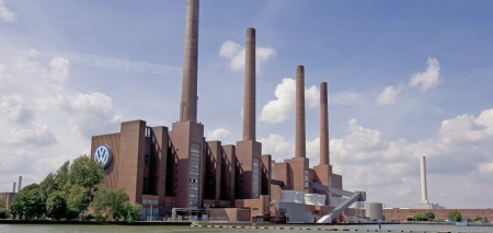 Volkswagen Factory